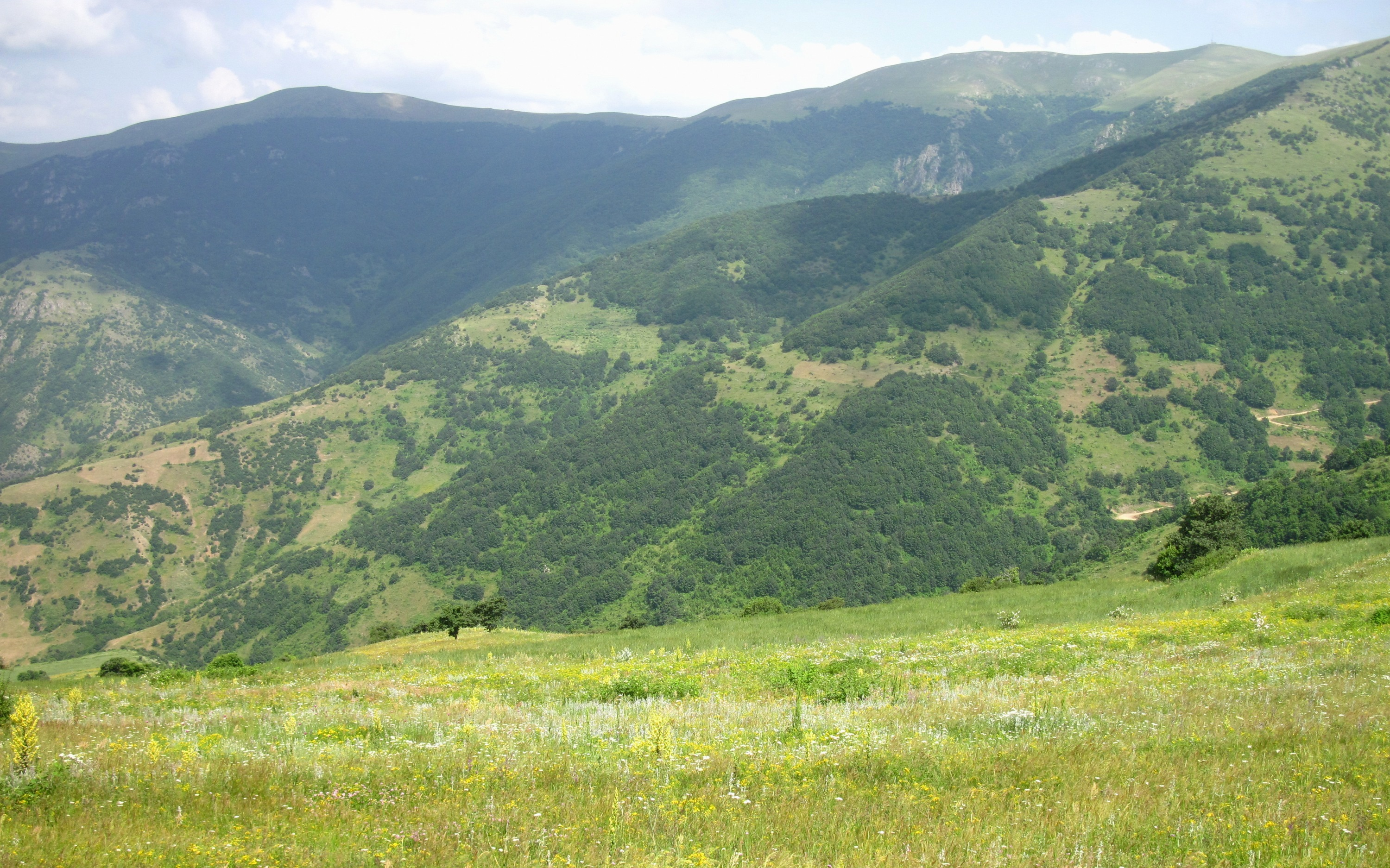 For Chaparli wiki page.